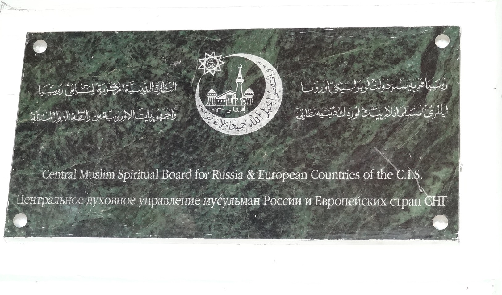 Ufa russian islam